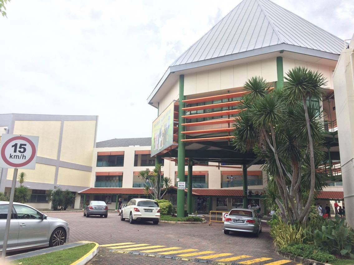 Current building of Tanjong Katong Secondary School, capturing the signature octagonal structure in school assembly plaza